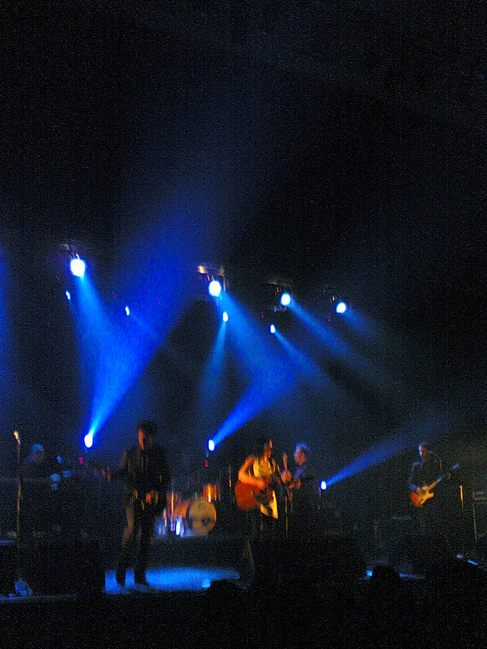 Rádio Macau, Santa Maria da Feira, Portugal. March, 2008.